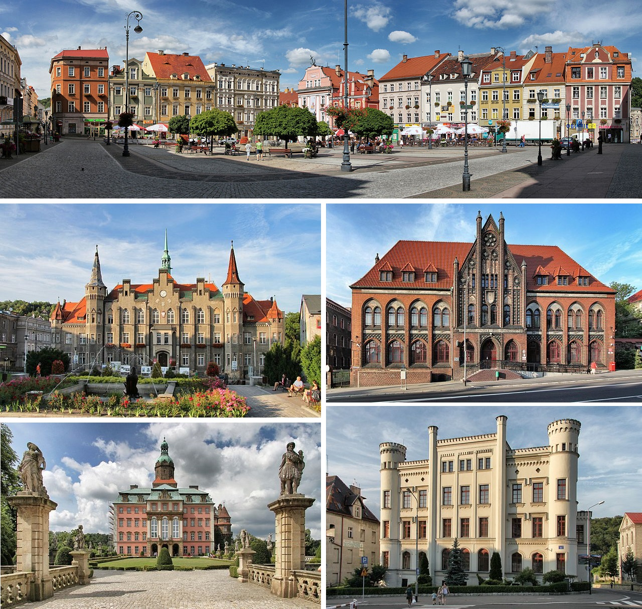 Collage of views of Wałbrzych.